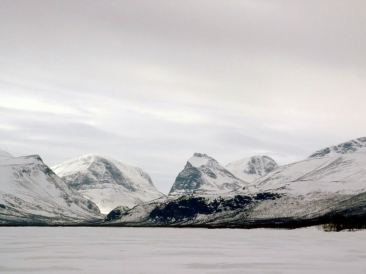 Mount Tuolpagorni and the Kebnekaise massif, Lake Laddjujavri in winter 2007